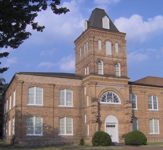 Photograph taken of Kivett Hall in May 2007